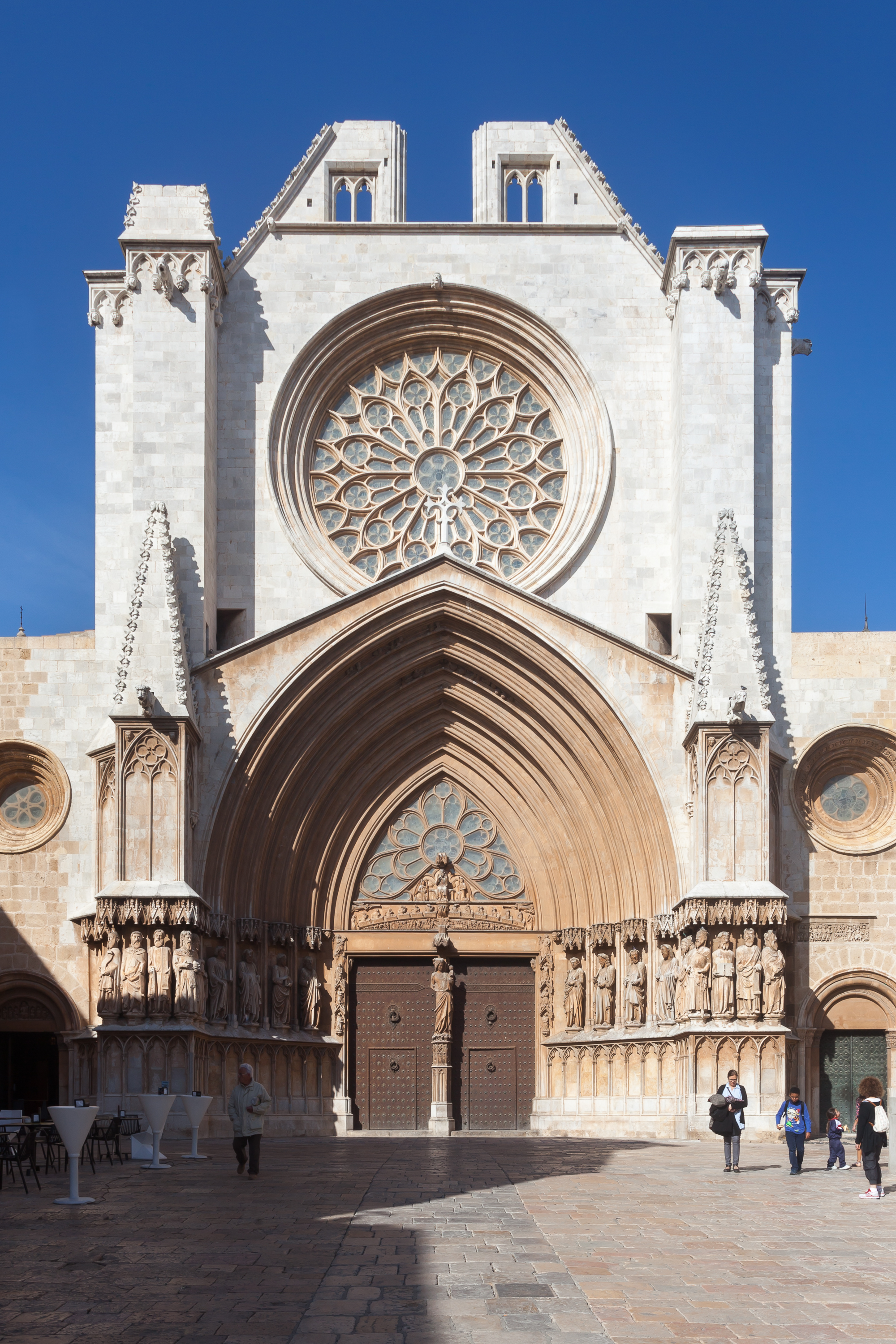 Portal of the Cathedral of Tarragona. Catalonia.